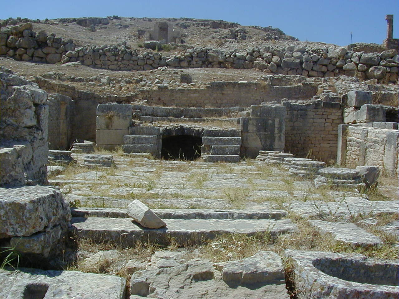 Victoria's church, Dougga